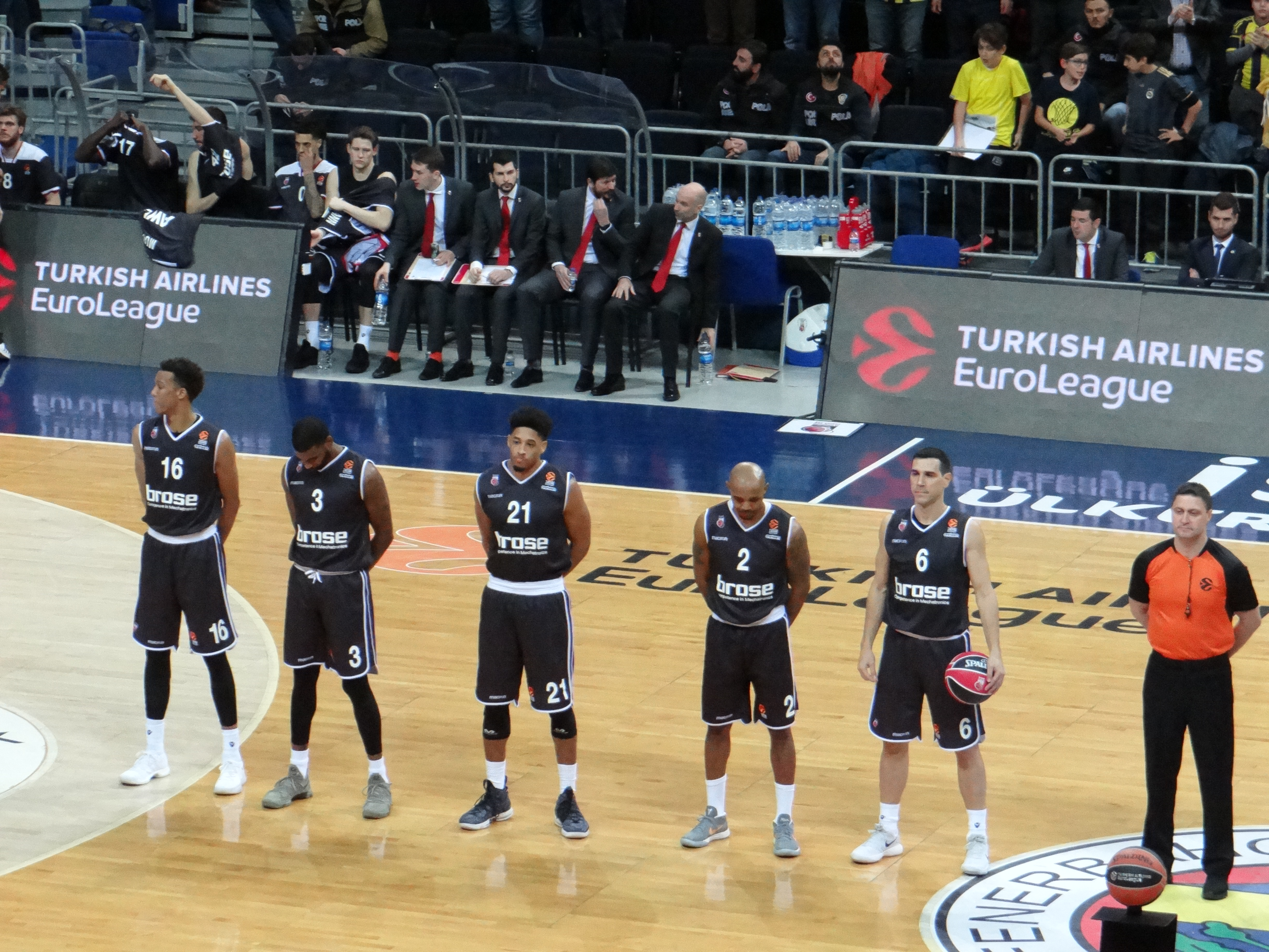 Brose Bamberg EuroLeague 20180209